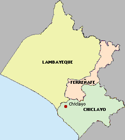 Map of the provinces of the Lambayeque region, Peru Created by User:StarbucksFreak - Mar. 2005